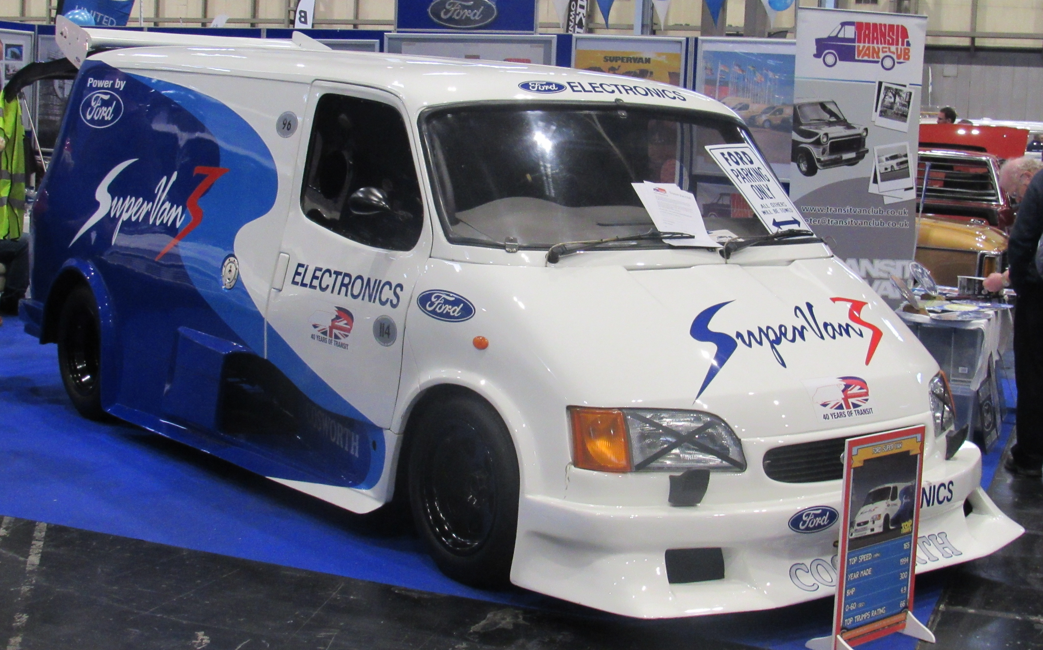 1994 Ford Supervan 3 3.5 Taken at the NEC Classic Motor Show 2017